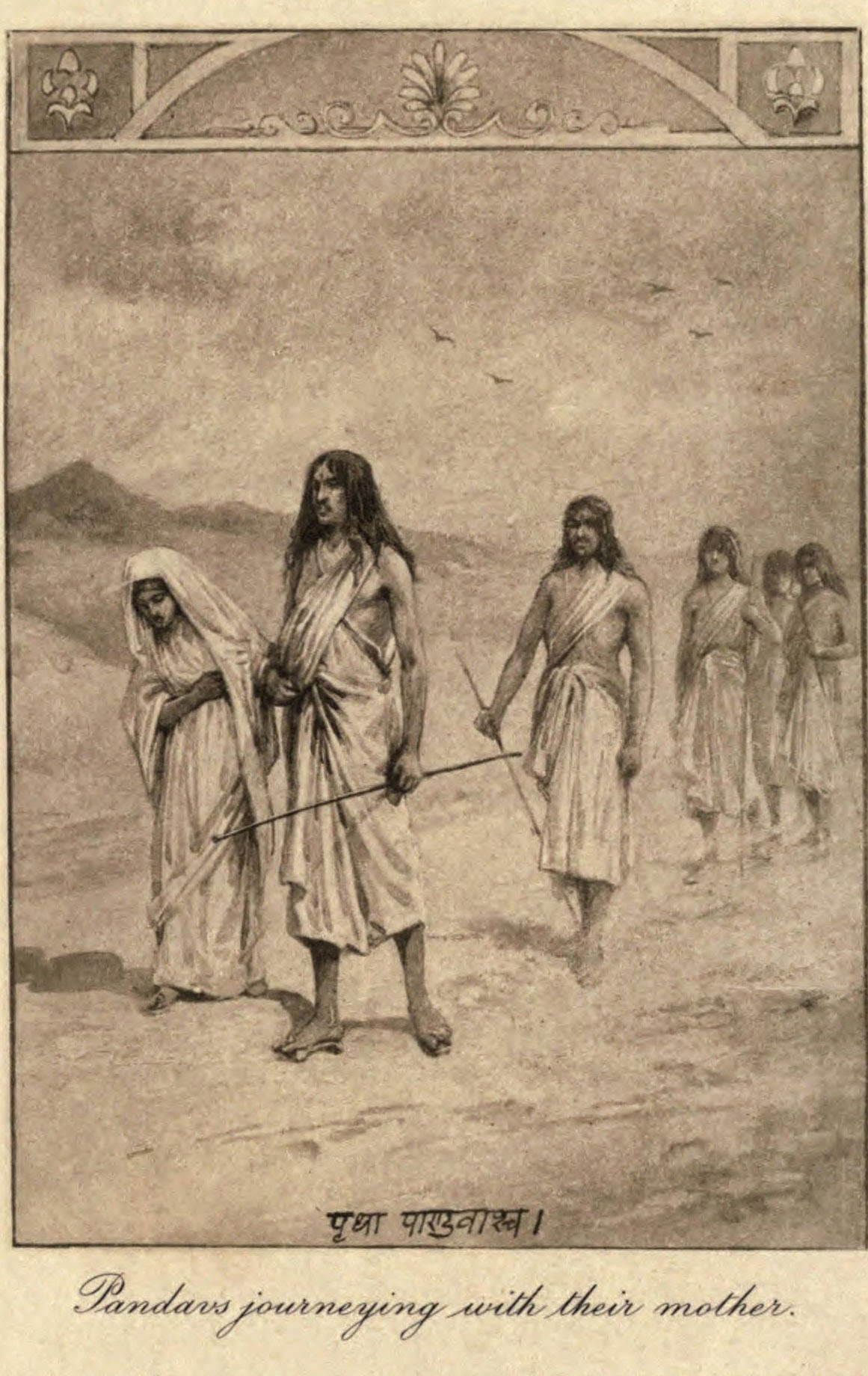 Illustrations from the Book Maha-Bharata, The Epic of Ancient India by Romesh Dutt - 1899 Read the full book online or download the PDF. Twelve Photogravures from Original Illustrations Designed from Indian Sources by E. Stuart Hardy